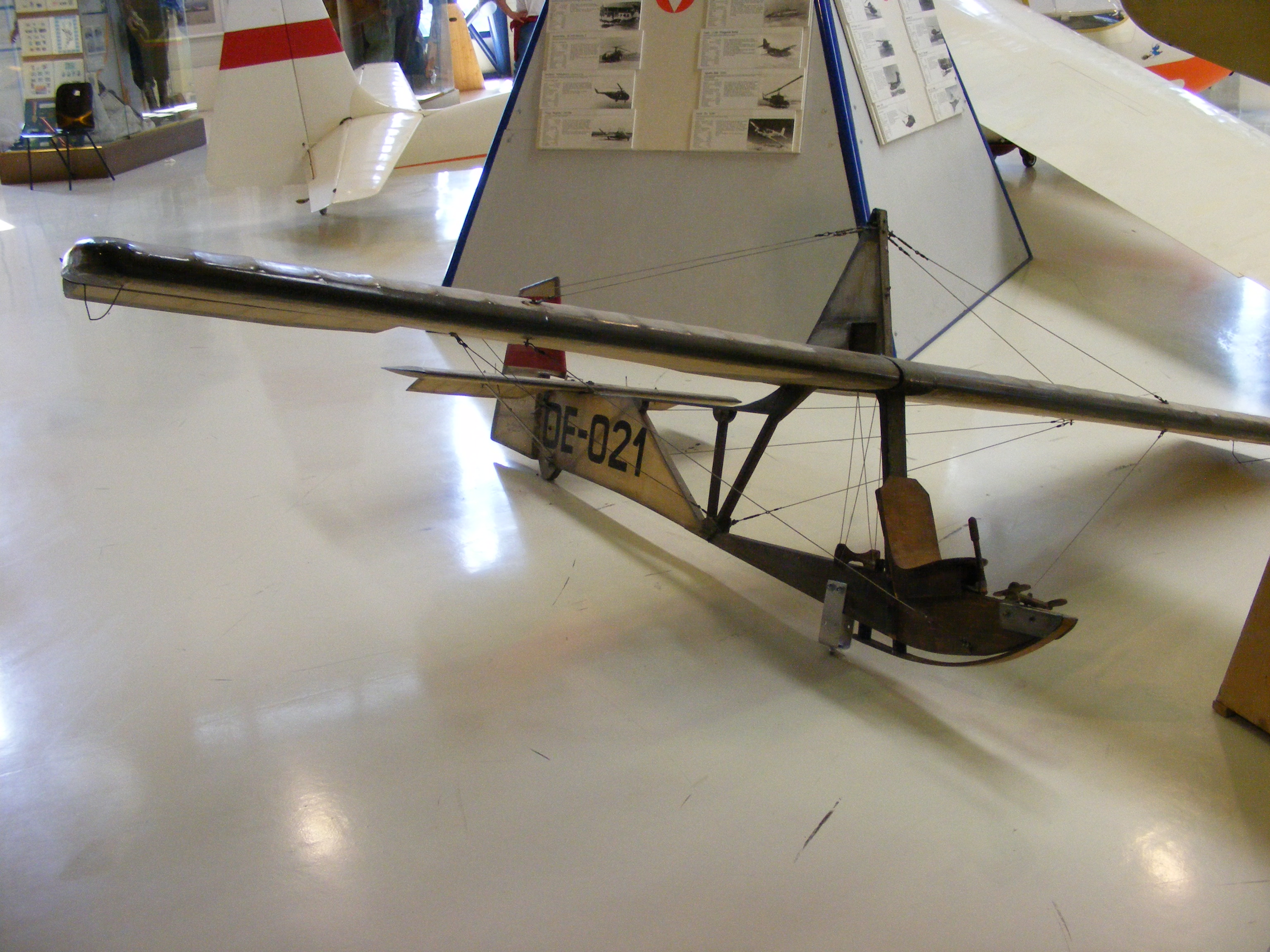 Unknown glider at aviaticum museum, Austria